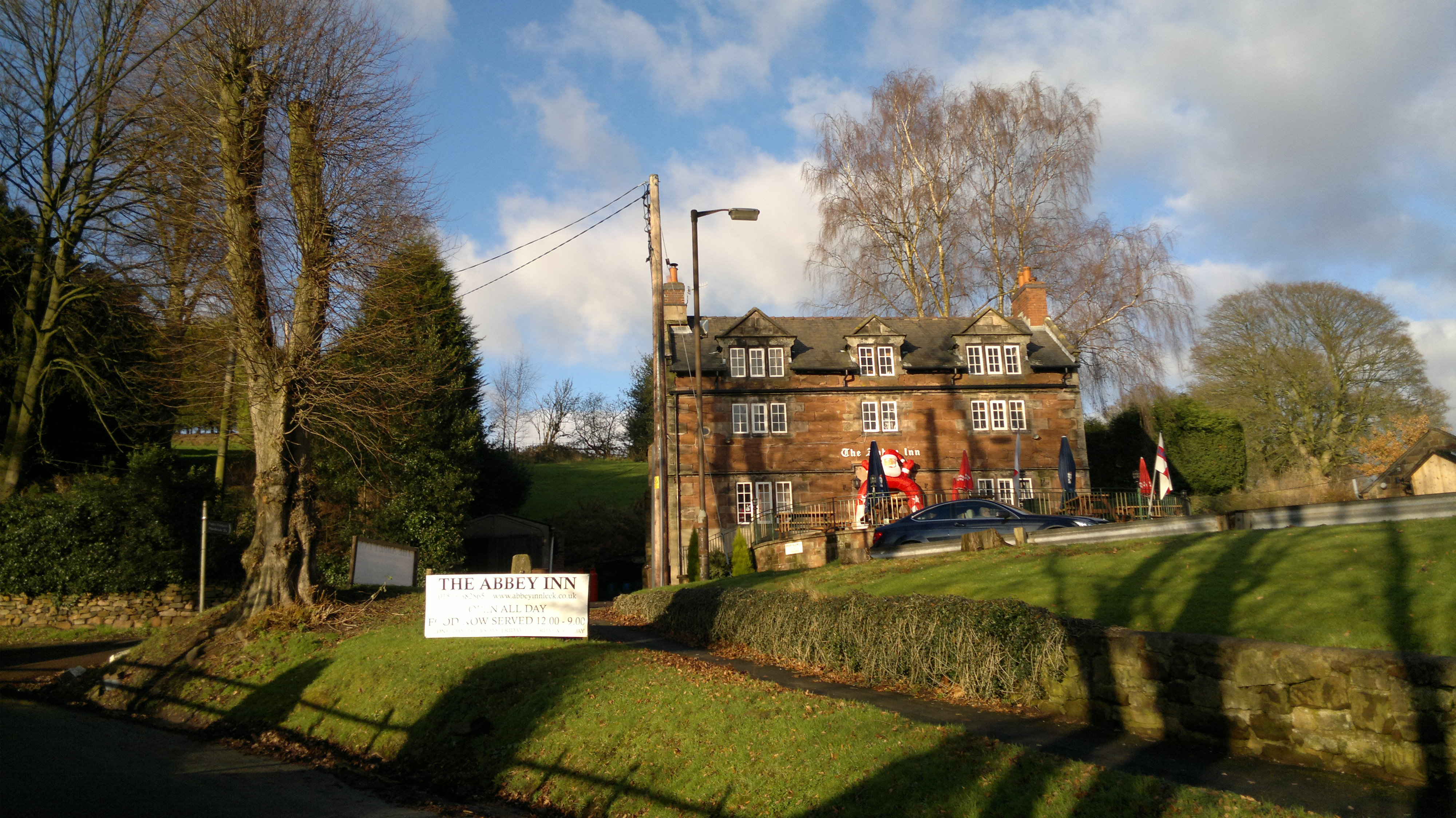 The Abbey Inn